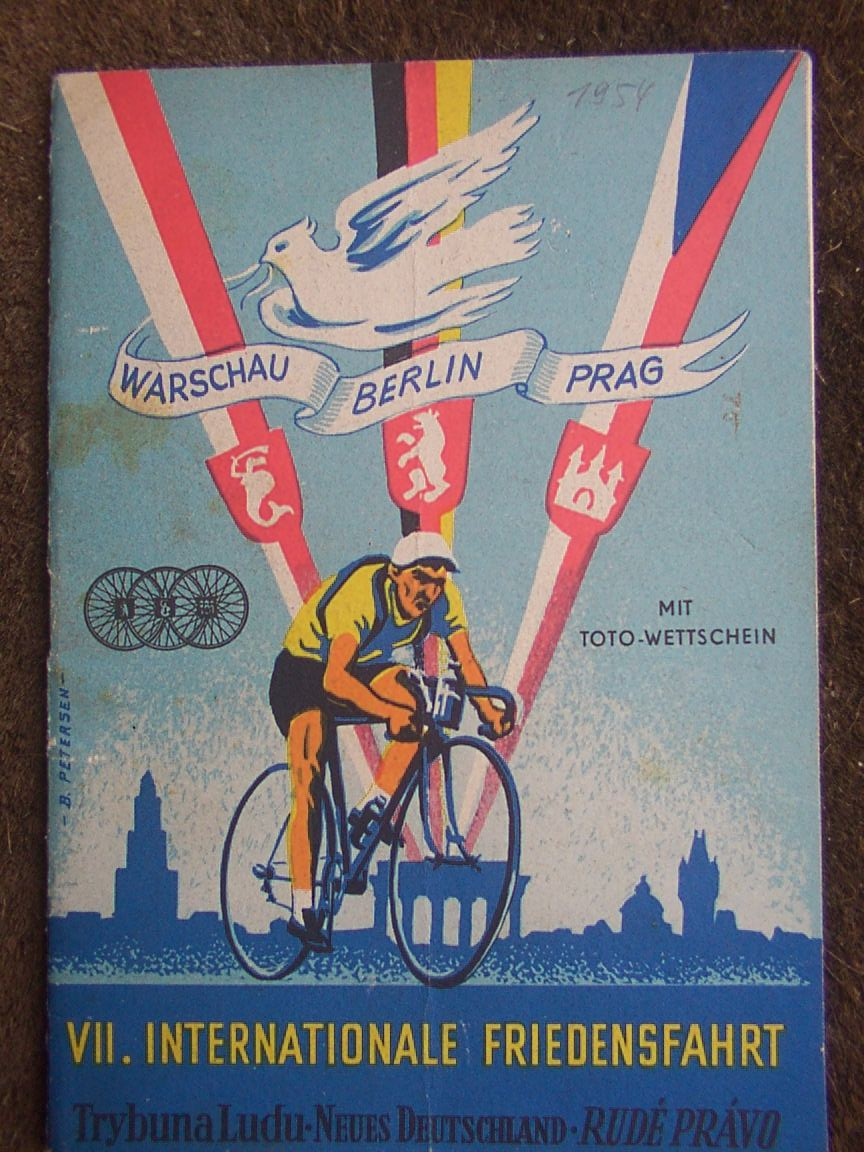 The 1954 Peace Race